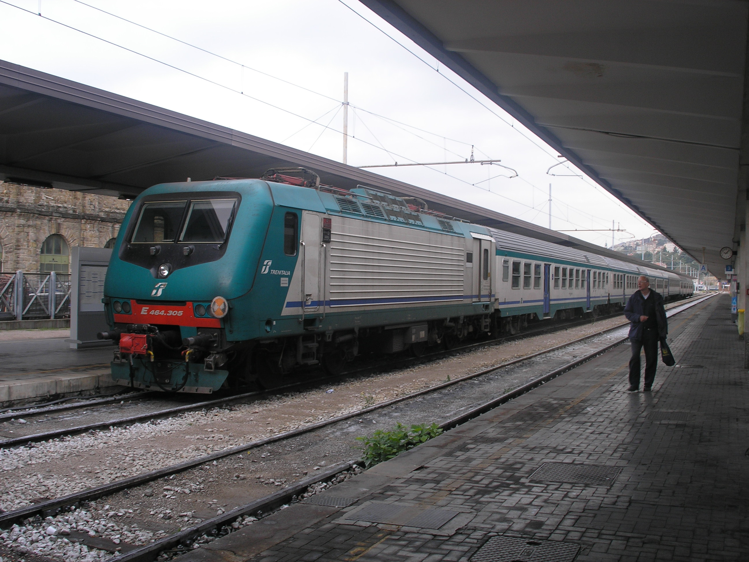 An FS E464 series locomotive in Trieste, Italy